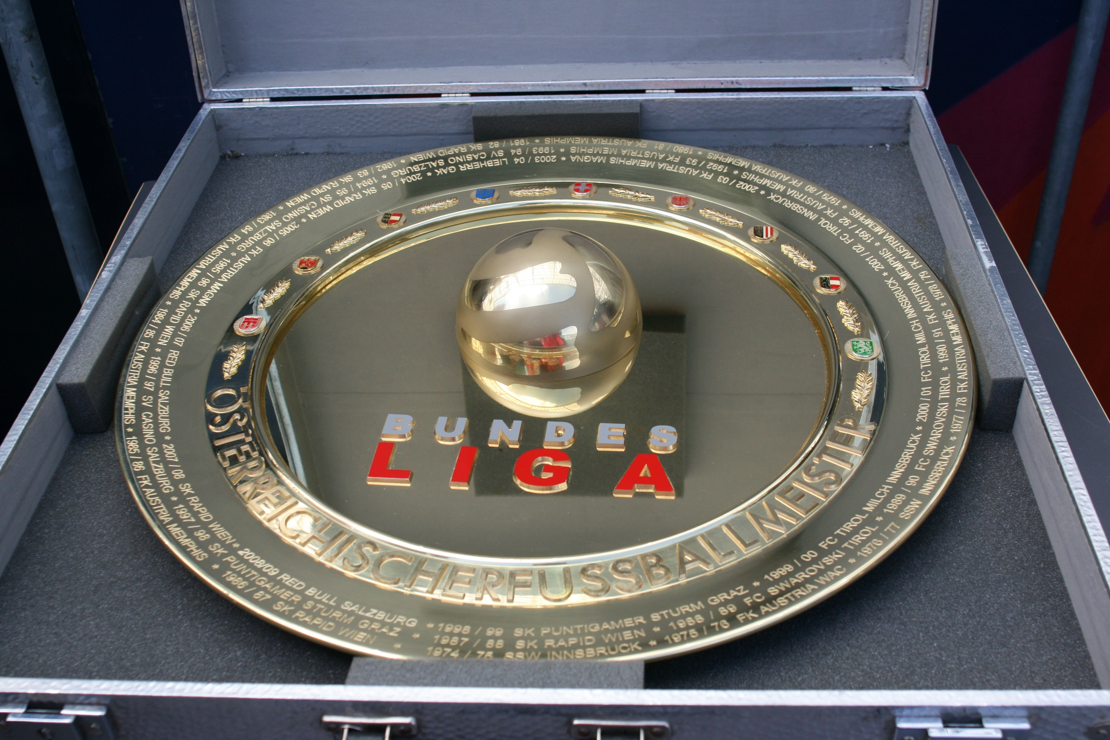 Trophy of the Austrian football Bundesliga.